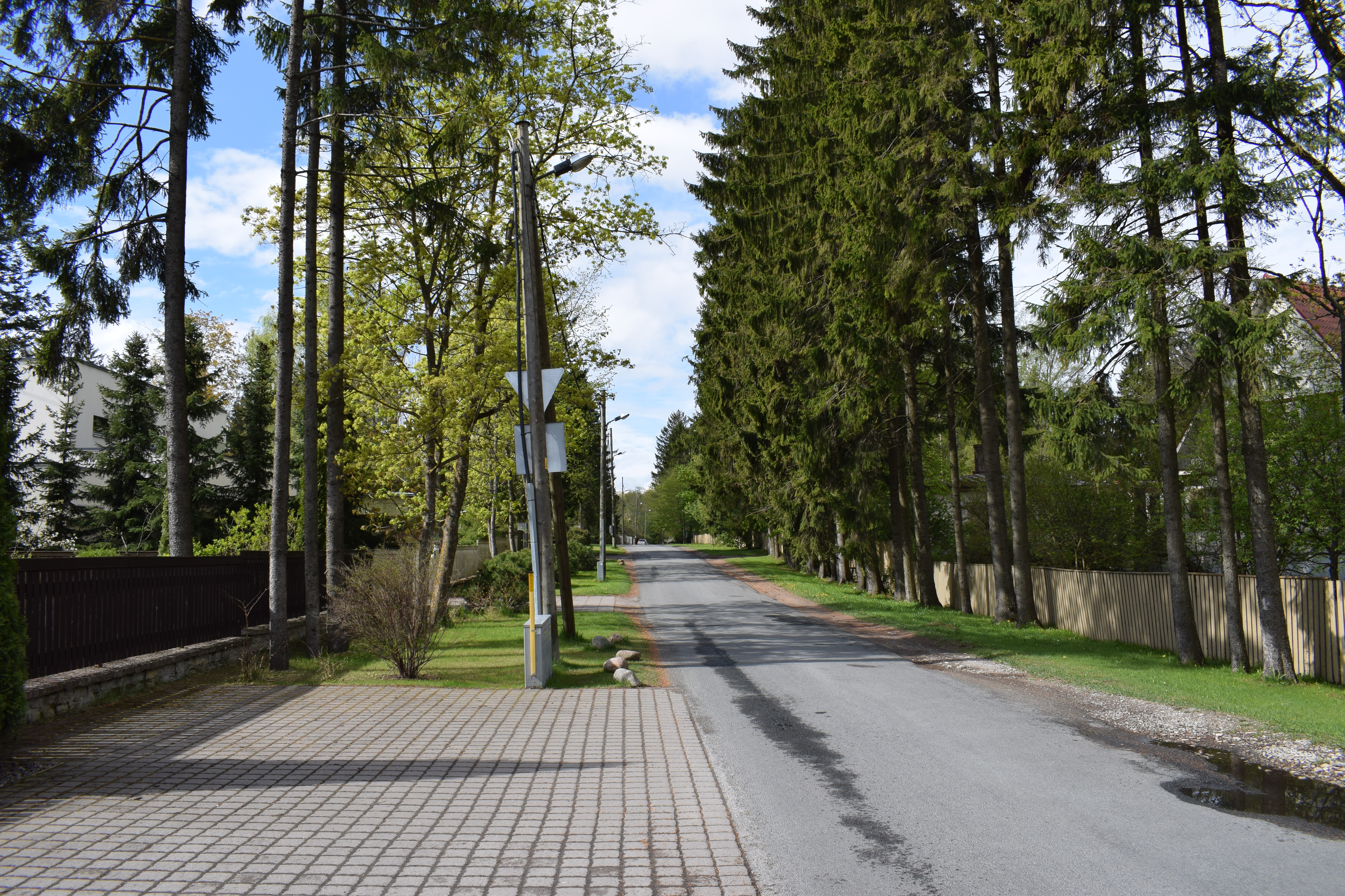 Varsaallika street